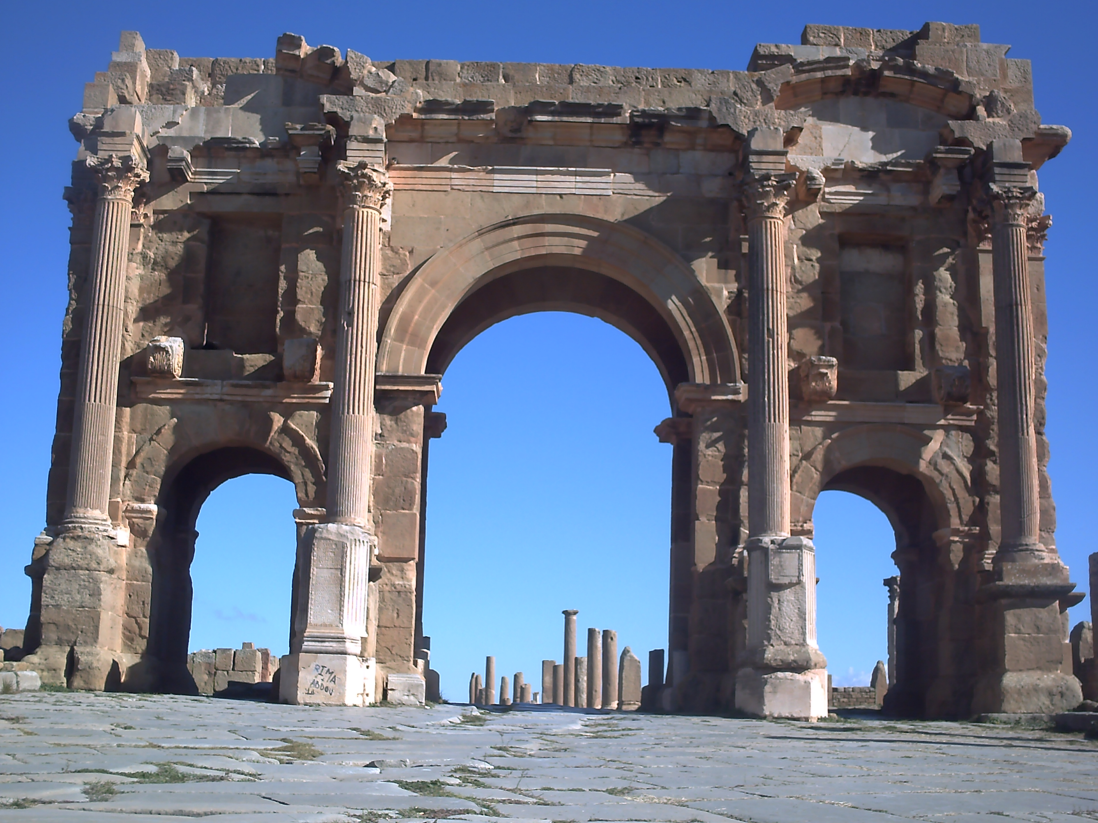 The Ancient Roman triumphal Arc of Trajanus — in Timgad, Algeria.